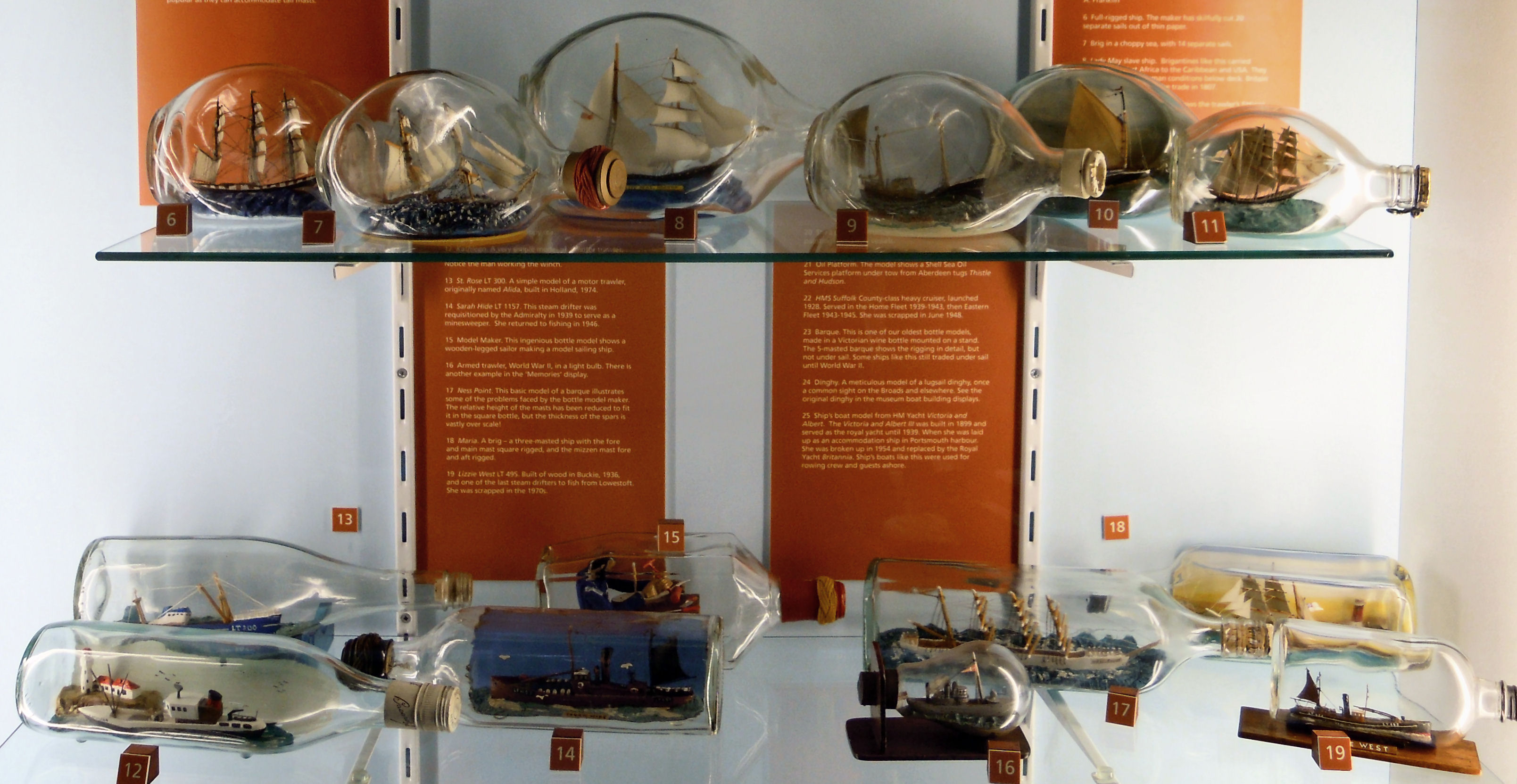 Selection of the ships in bottles displayed at Lowestoft Maritime Museum